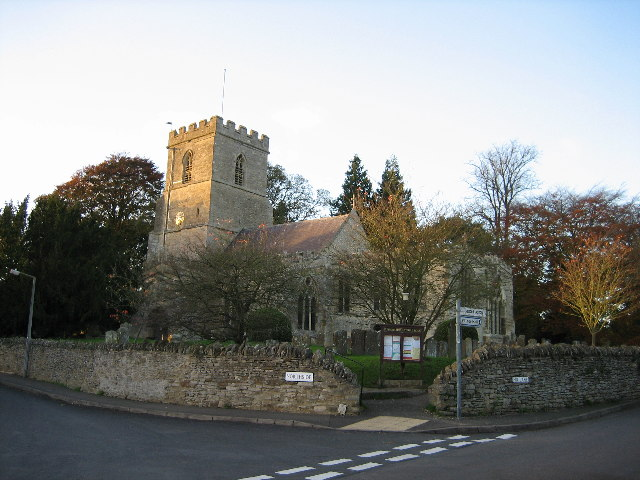 St. Peter & St. Paul Church, Steeple Aston. The age and origins of Steeple Aston church are unknown. The first record is of a rector, Henry de Estone, being here between 1180 and 1193. The church seen today is not built all of one piece but has grown by successive alterations and additions over the centuries.